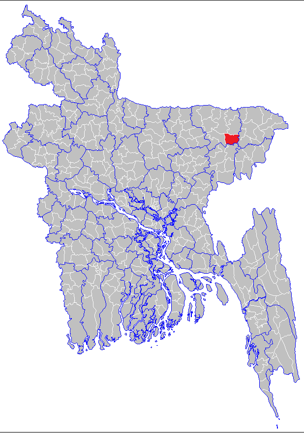 Location of Jagannathpur in Bangladesh